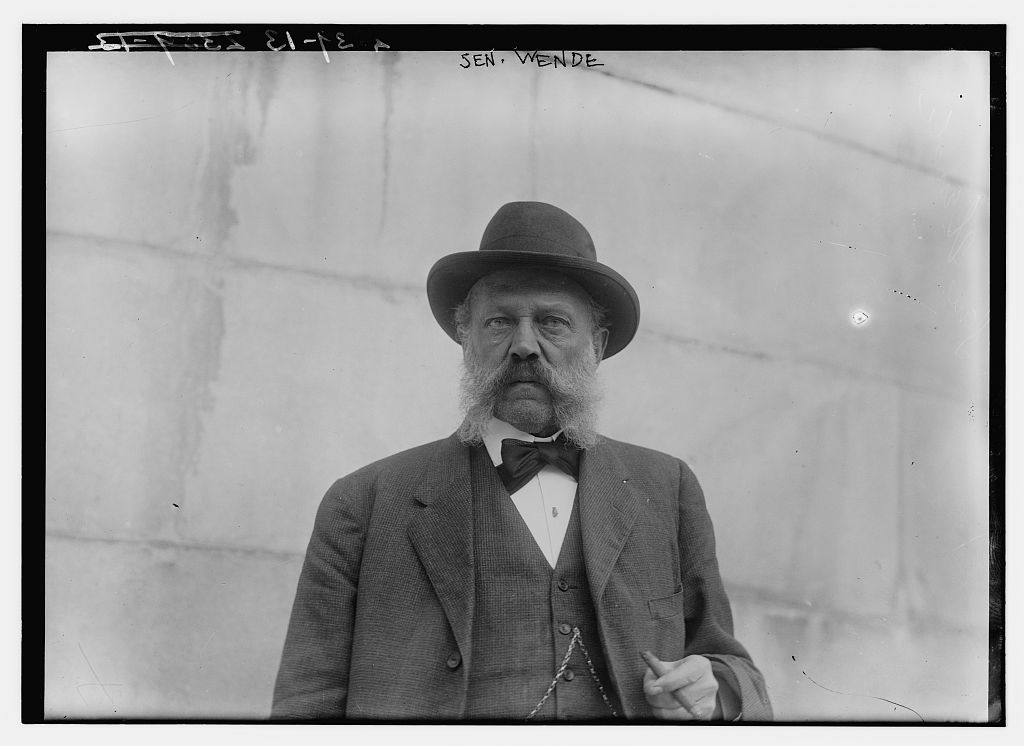 Bain News Service,, publisher. Senator Wende [between ca. 1910 and ca. 1915] 1 negative : glass ; 5 x 7 in. or smaller. Notes: Title from unverified data provided by the Bain News Service on the negatives or caption cards. Forms part of: George Grantham Bain Collection (Library of Congress). Format: Glass negatives. Repository: Library of Congress, Prints and Photographs Division, Washington, D.C. 20540 USA, General information about the Bain Collection is available at Persistent URL: Call Number: LC-B2- 2839-13a